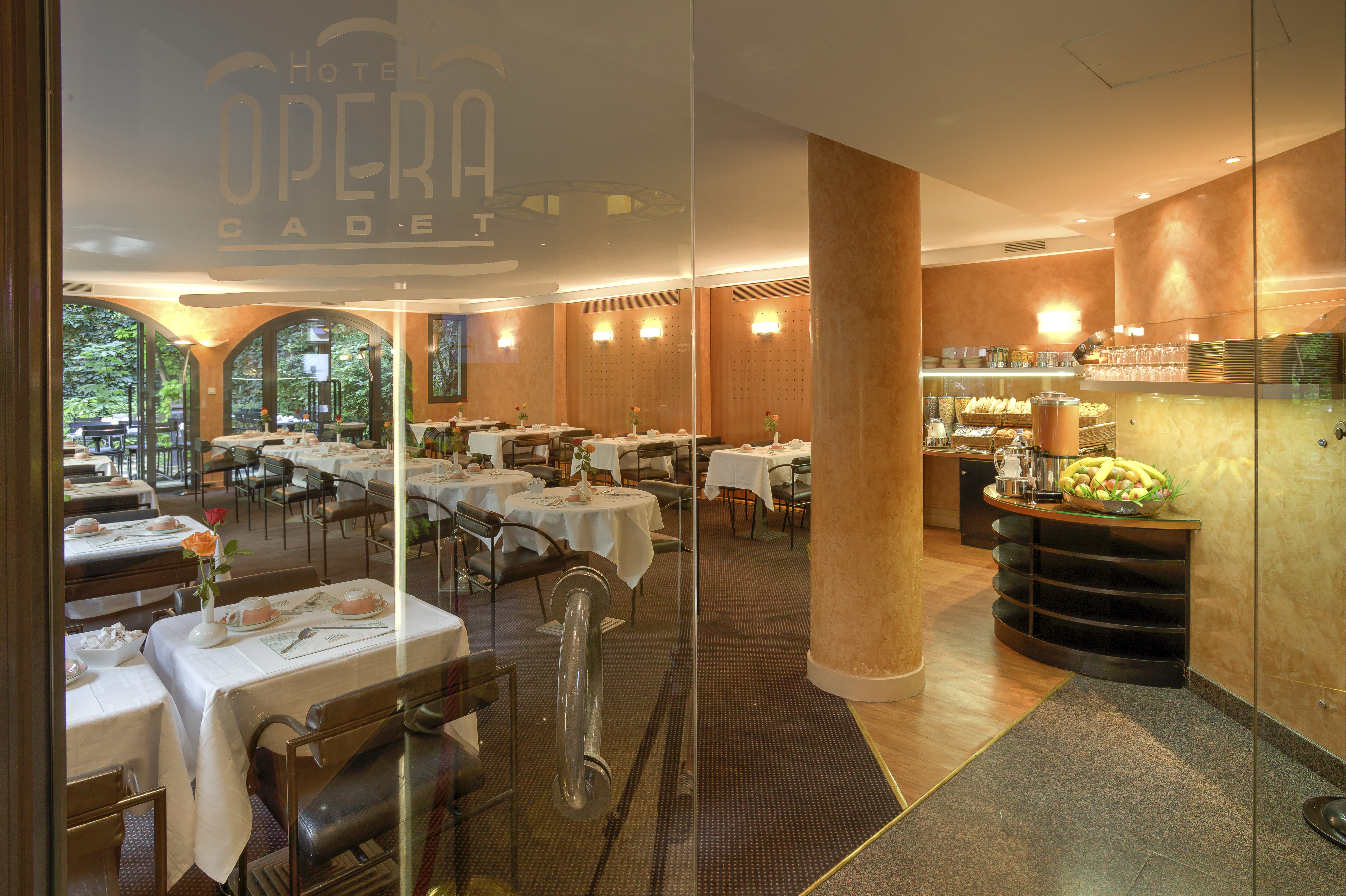 Hôtel Opéra Cadet, 24 rue Cadet, 75009 Paris, France.